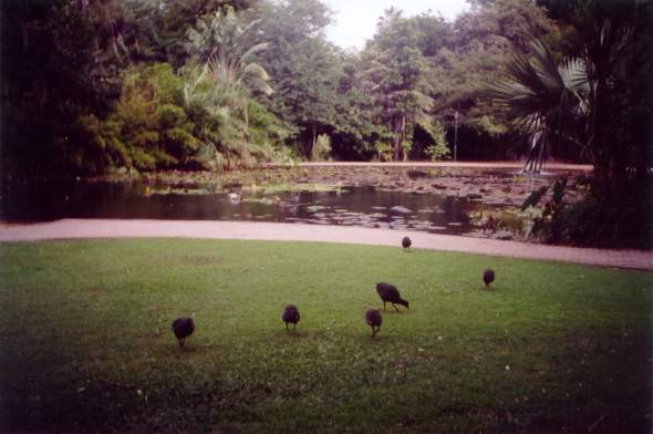 Dusty Moorhens at the pond at the Brisbane City Botanic Gardens